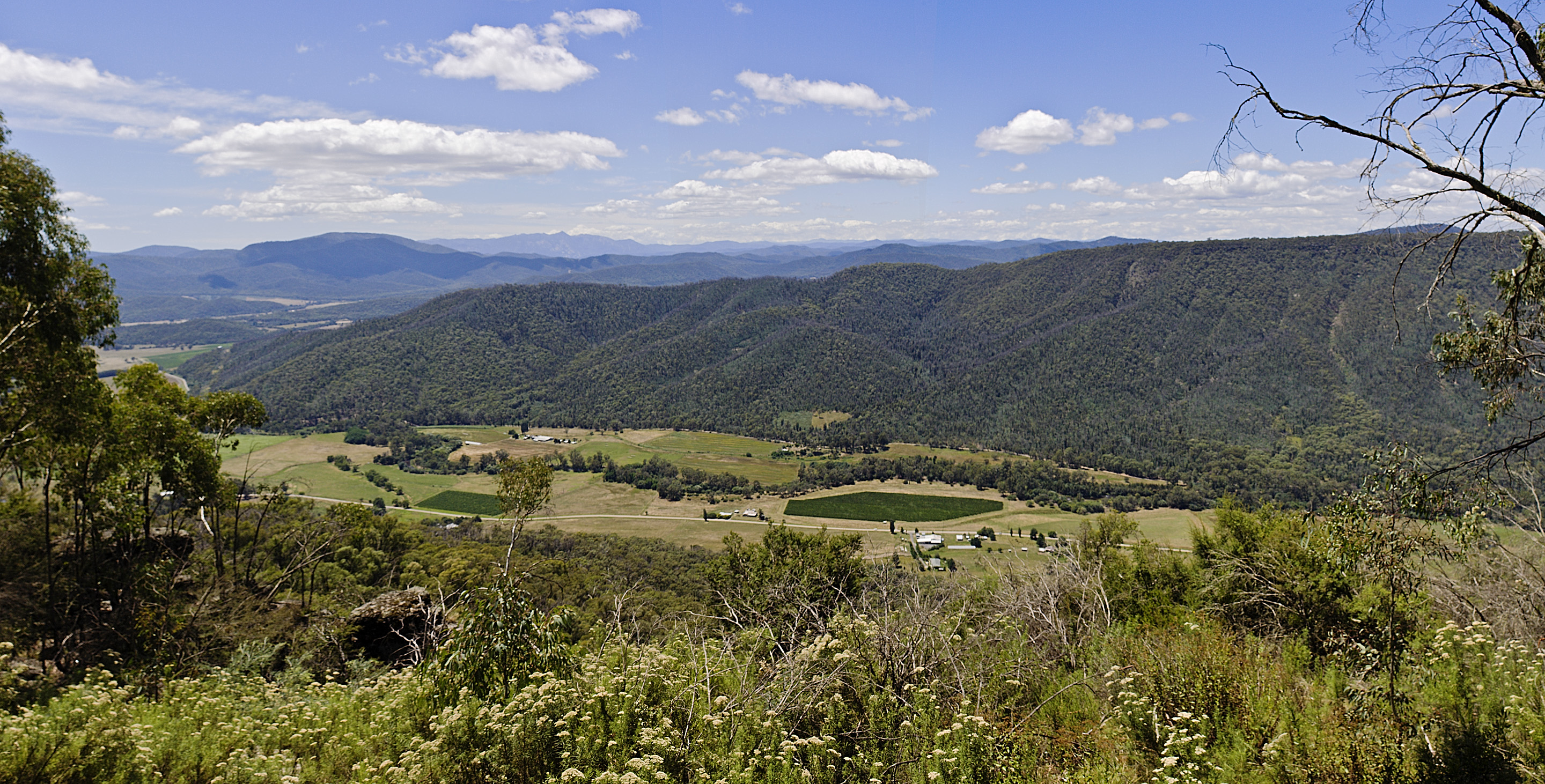 The view from Power's Lookout, overlooking the King Valley in Victoria, Australia. Created by merging 5 original photos taken by me on 17Jan2010 from Power's Lookout.